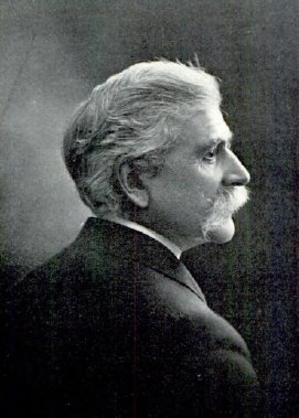 Raymond Cazallis Davis portrait